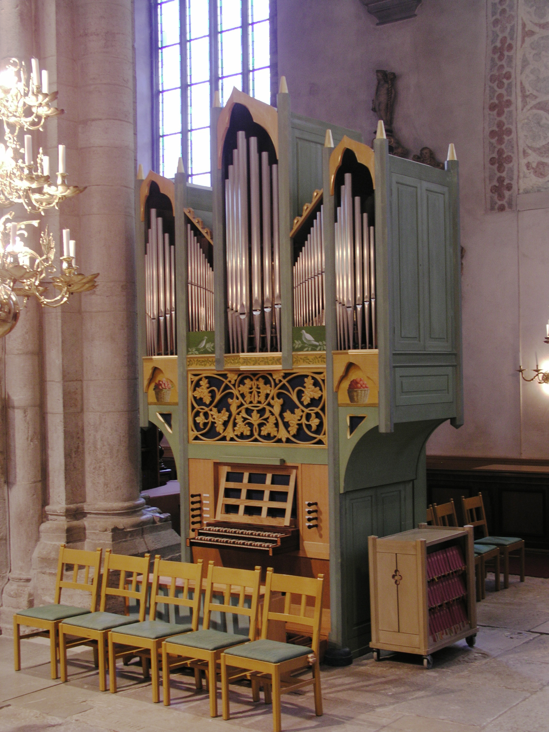 Cathedral Visby Sankta Maria. Choir organ.